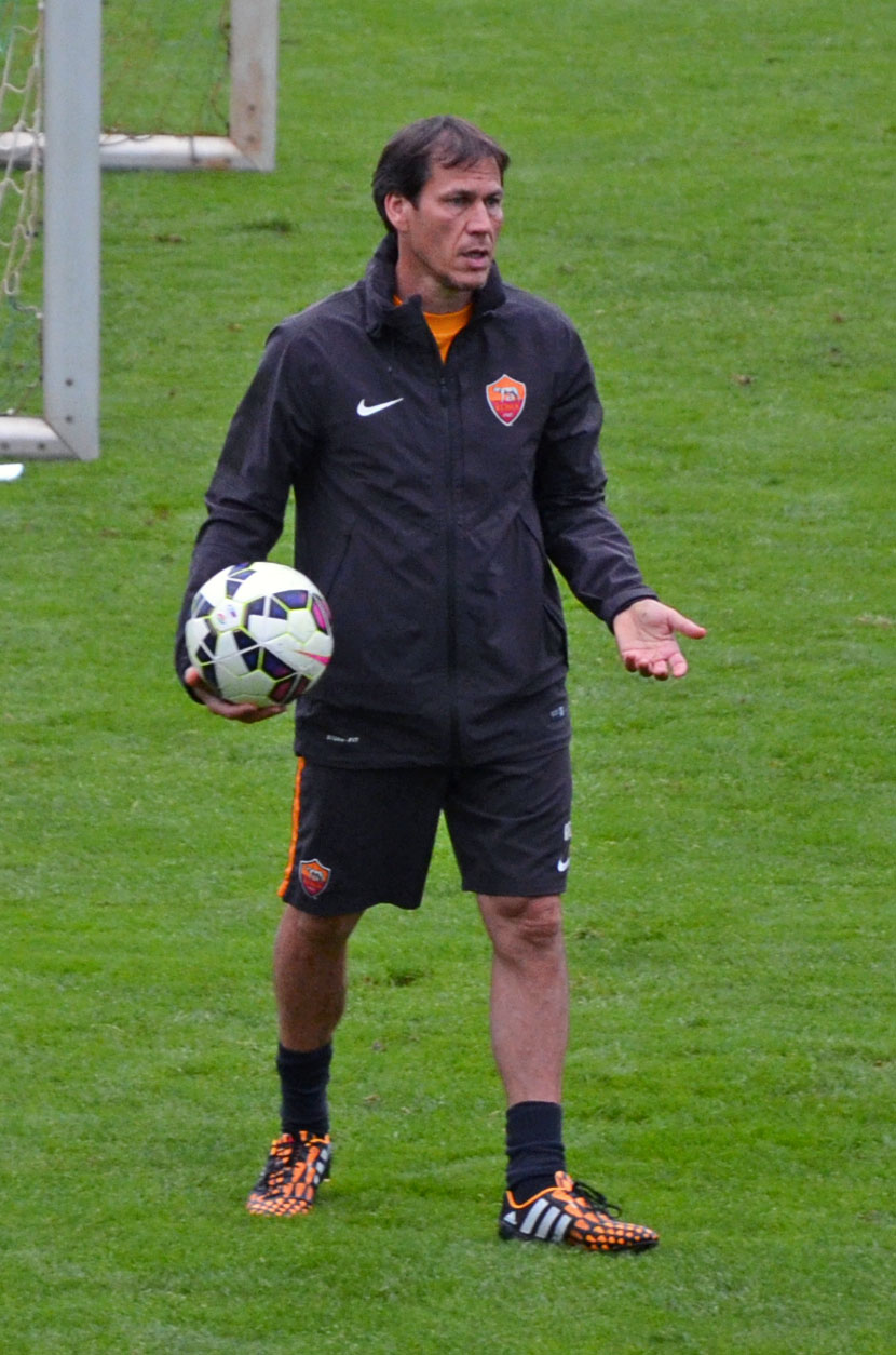 French football manager Rudi Garcia (AS Roma), Bad Waltersdorf (Austria), 12 August 2014.